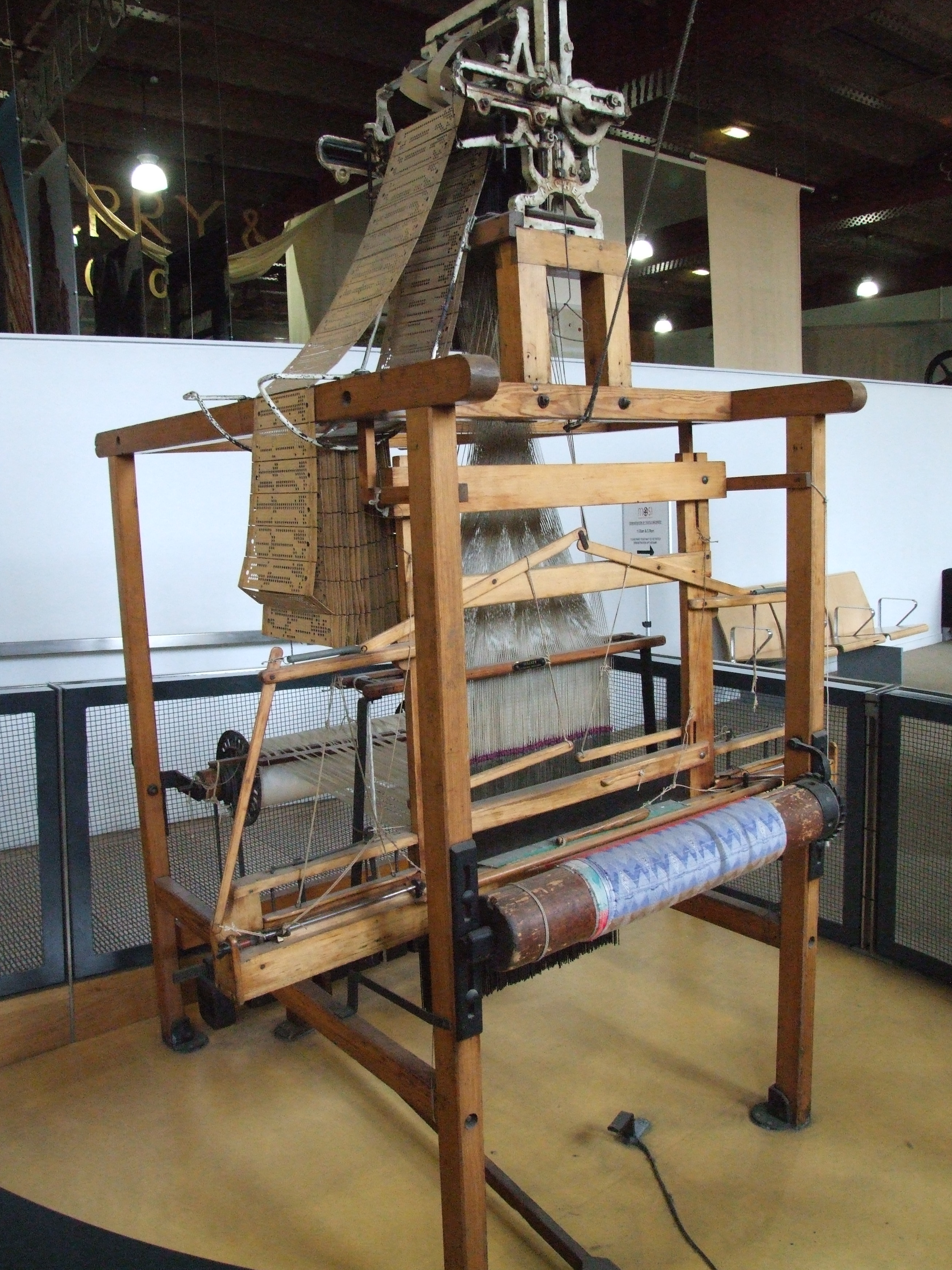 The Museum of Science and Industry (Manchester) contains a collection of textile machines that demonstrate the whole process used in a Cotton mill, and a few key eighteenth century machines.